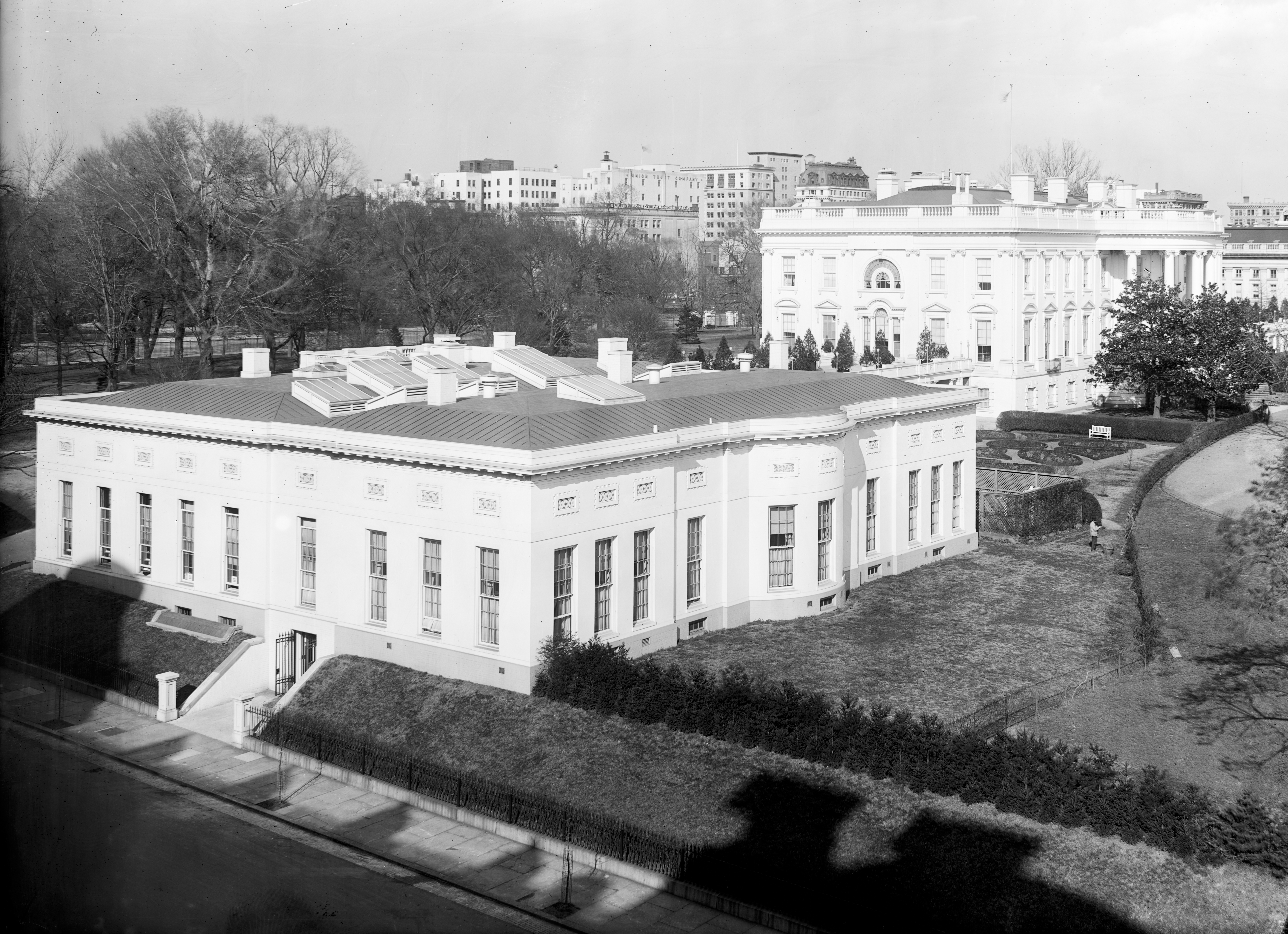 West Wing between 1910 and 1920.